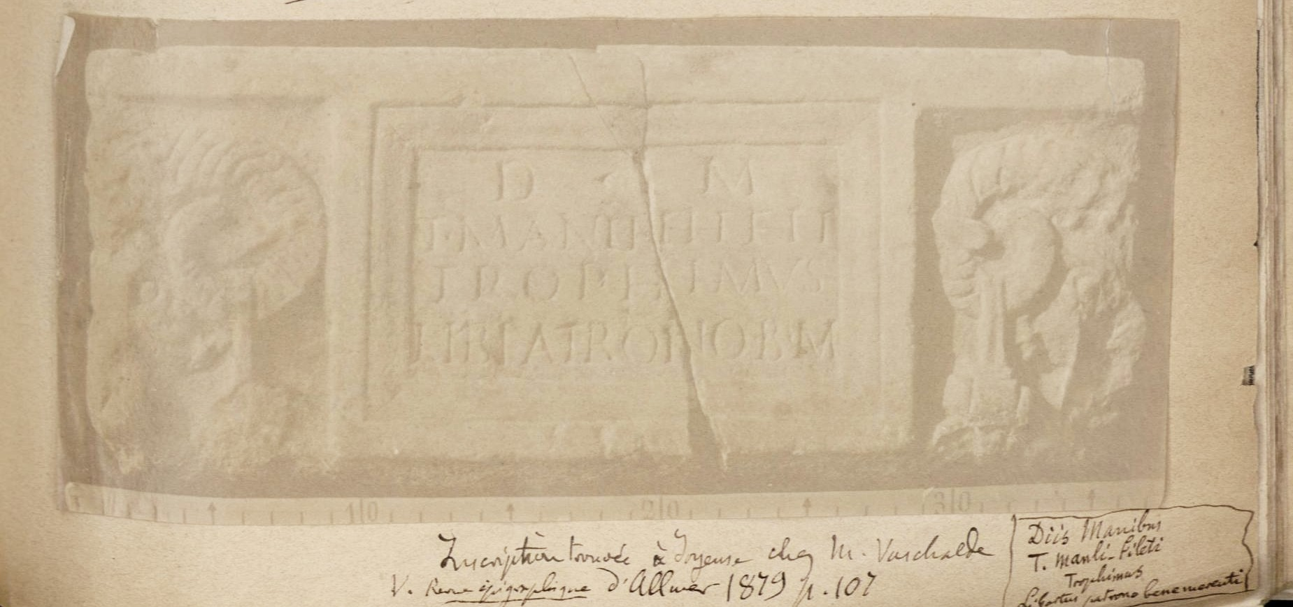 Bandeau retrouvé dans les années 1880 à Joyeuse (Ardèche).